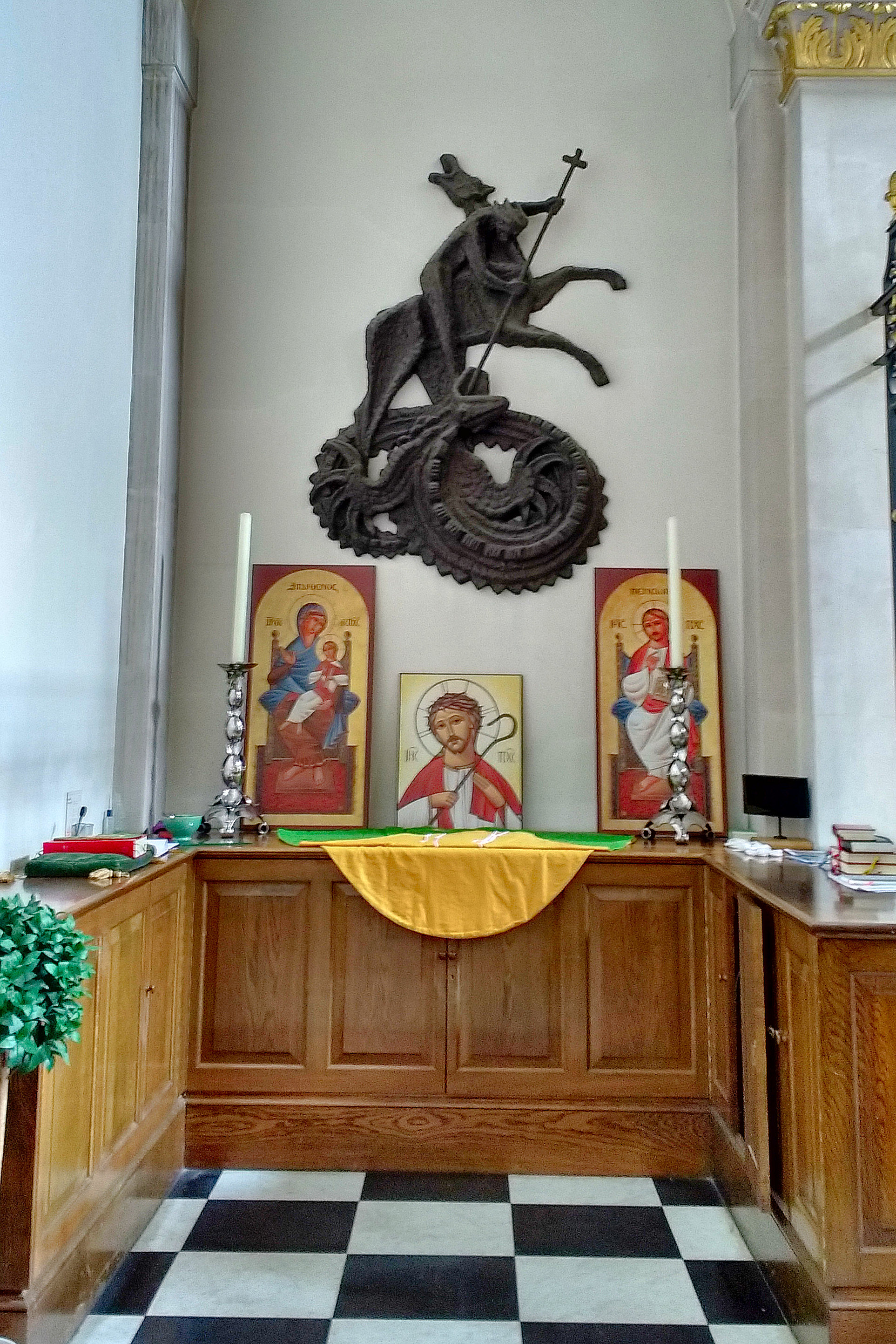 Norwegian Chapel, St Mary-le-Bow, London. Bronze of St George and the Dragon. "This place in the restored church of St. Mary-le-Bow is sacred to the memory of the Norwegians who died in the resistance to the tyranny of Nazism in the years 1940-45. The bronze relief, by Ragnhild Butenschon, was given by the people of Norway for whom the sound of Bow Bells broadcast throughout Europe was a symbol of hope during the Nazi occupation. The sculpture was unveiled by his majesty King Olav V of Norway and dedicated by the Lord Bishop of London on March 25th 1966."